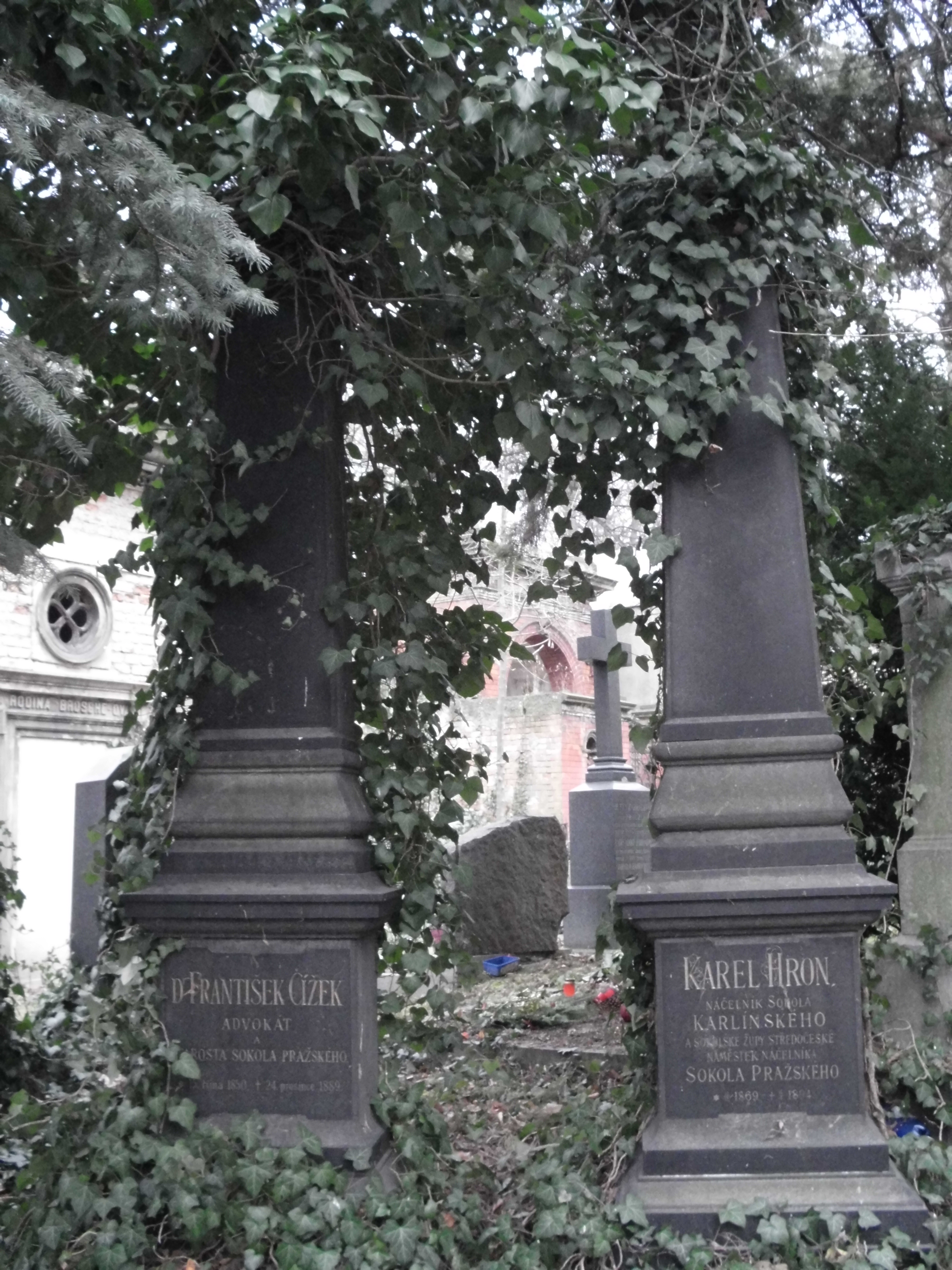 Tombstones of Sokol officials František Čížek (1850-1889) and Karel Hron (1869-1894) at Olšany Cemetery in Prague